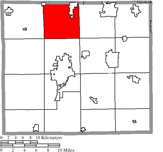 Map of the municipal and township boundaries of Wayne County, Ohio, United States, as of the 2000 census, with the location of Canaan Township highlighted. Township borders are shown only in unincorporated areas in order to differentiate incorporated and unincorporated areas more clearly.